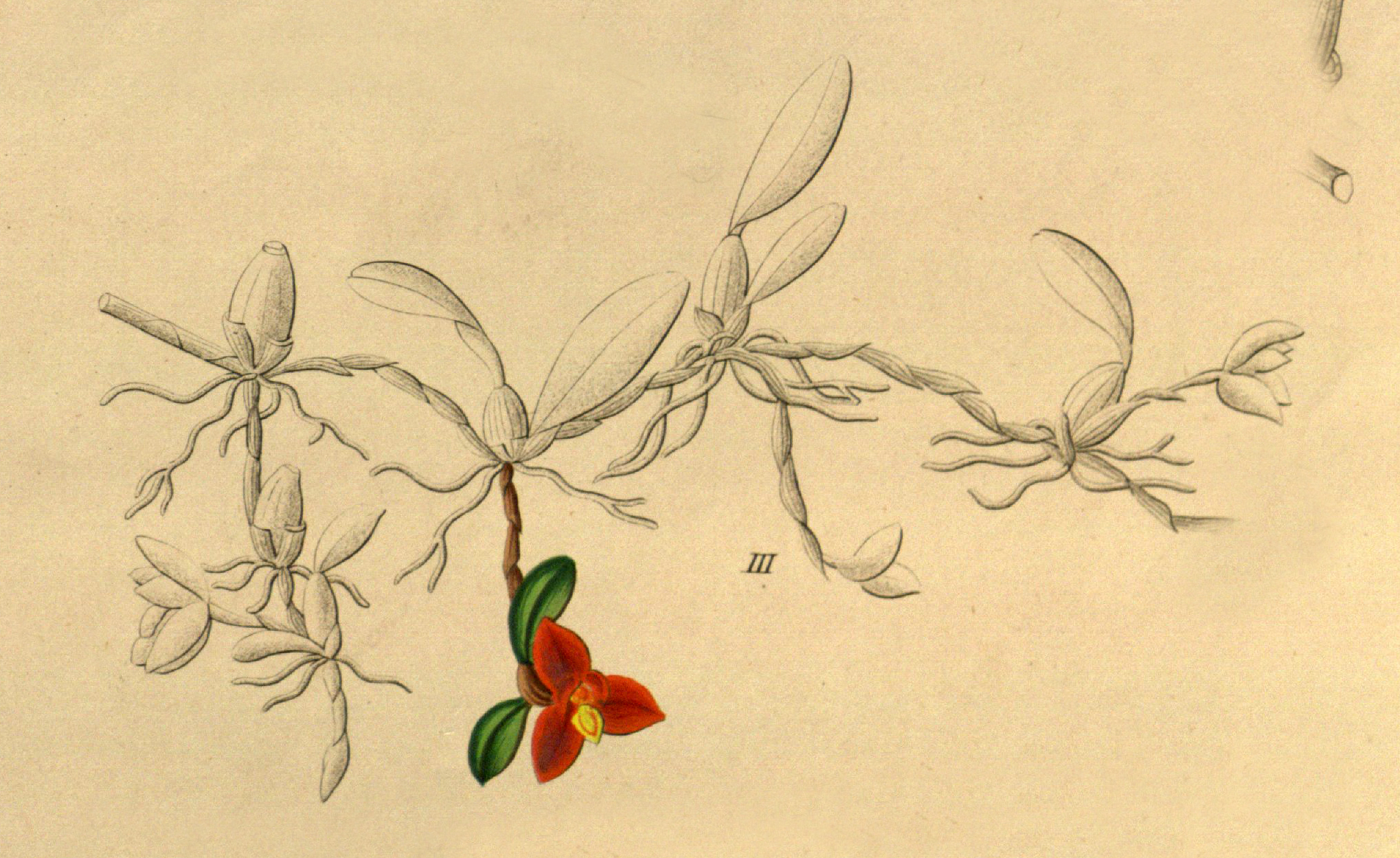 Illustration of Maxillaria sophronitis (as syn. Ornithidium sophronitis )